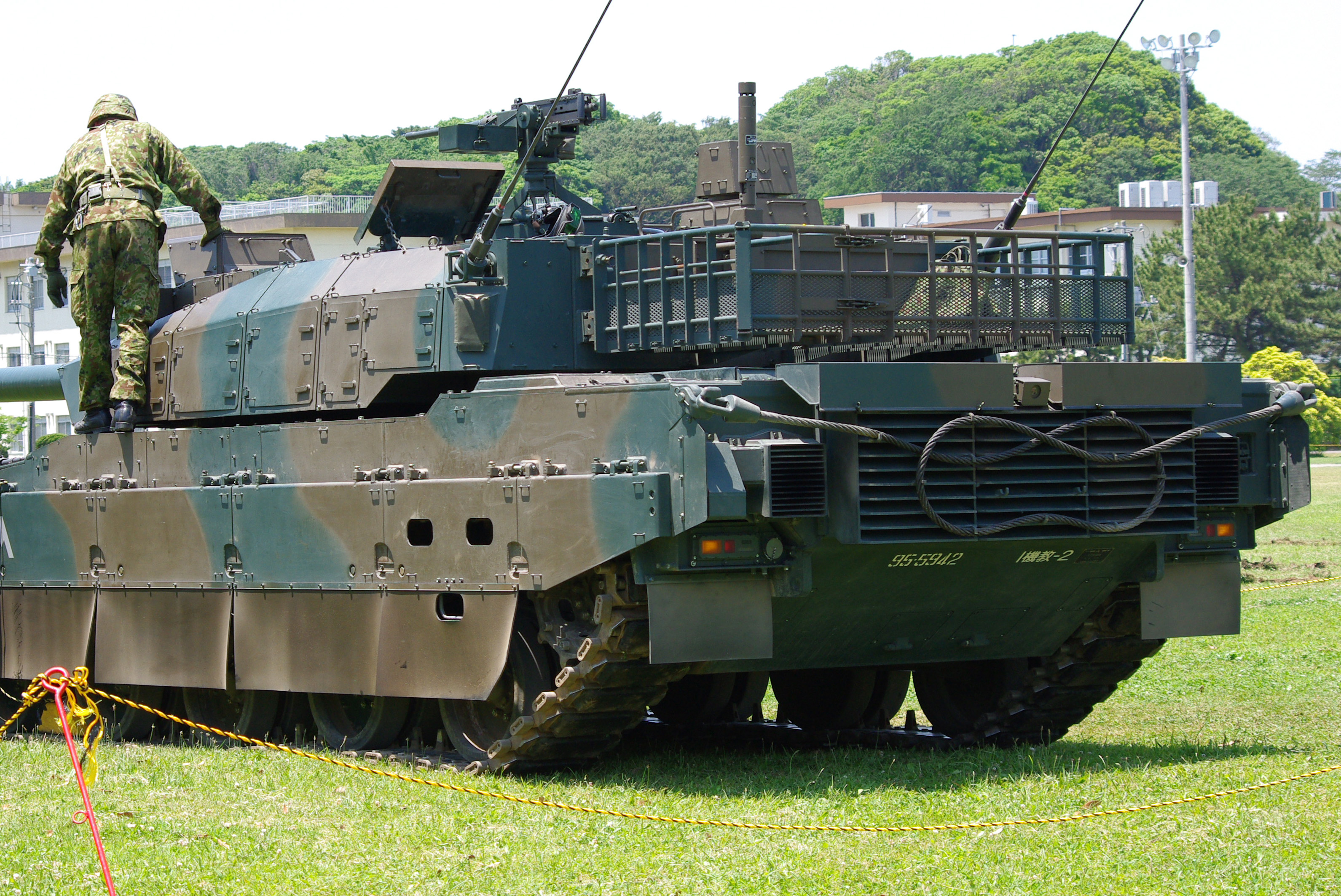 JGSDF Type10 Tank (production model),1st Armored Training Unit/Eastern Army Combined Brigade.Taken by Los688,in Camp Takeyama,Japan,at 27-May-2012.PD-self ja:10式戦車（量産型）2012年05月27日、東部方面混成団第1機甲教育隊 武山駐屯地で撮影。